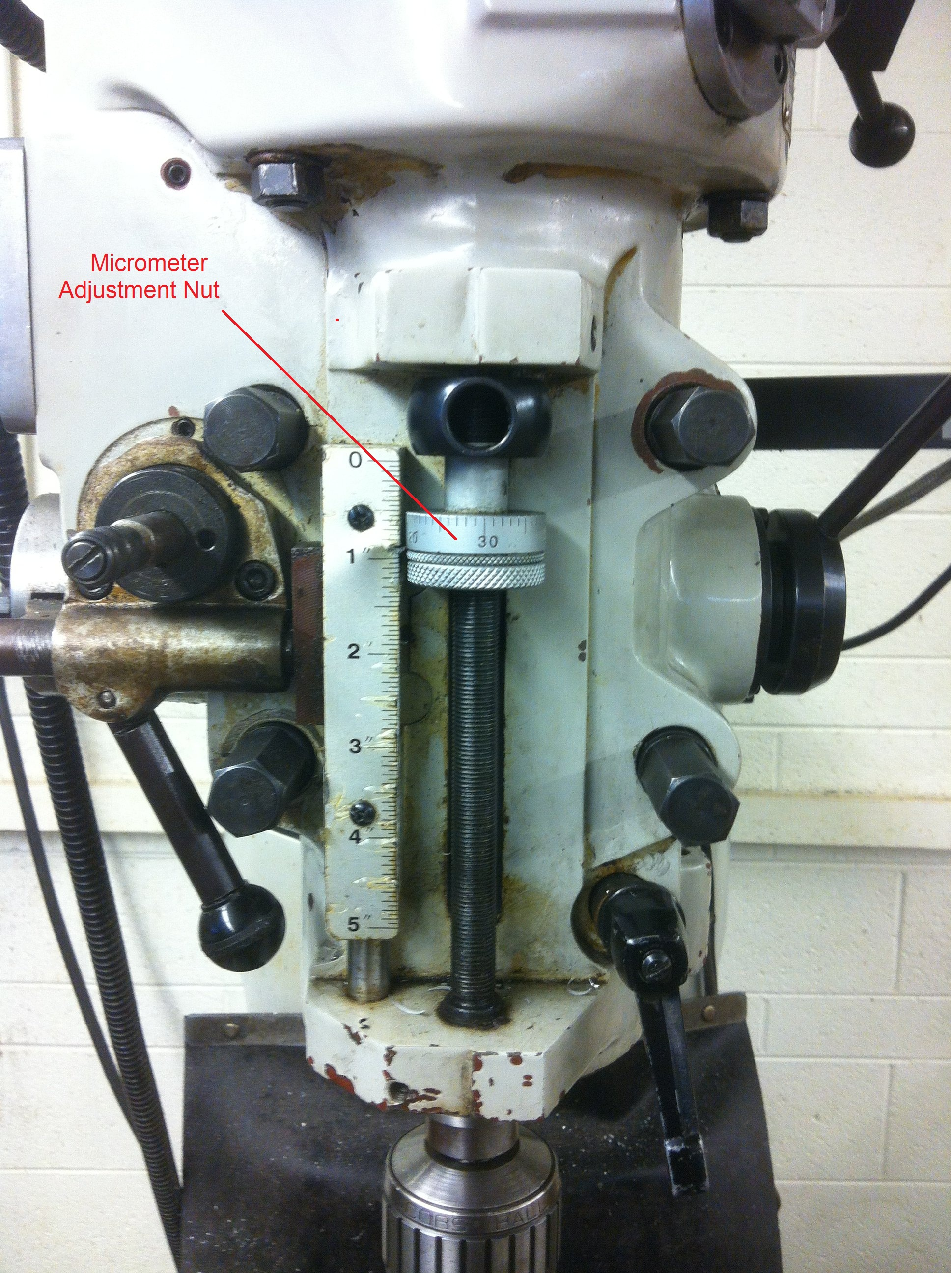 A micrometer adjuster nut on a milling machine.